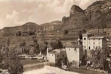 Moli de sau